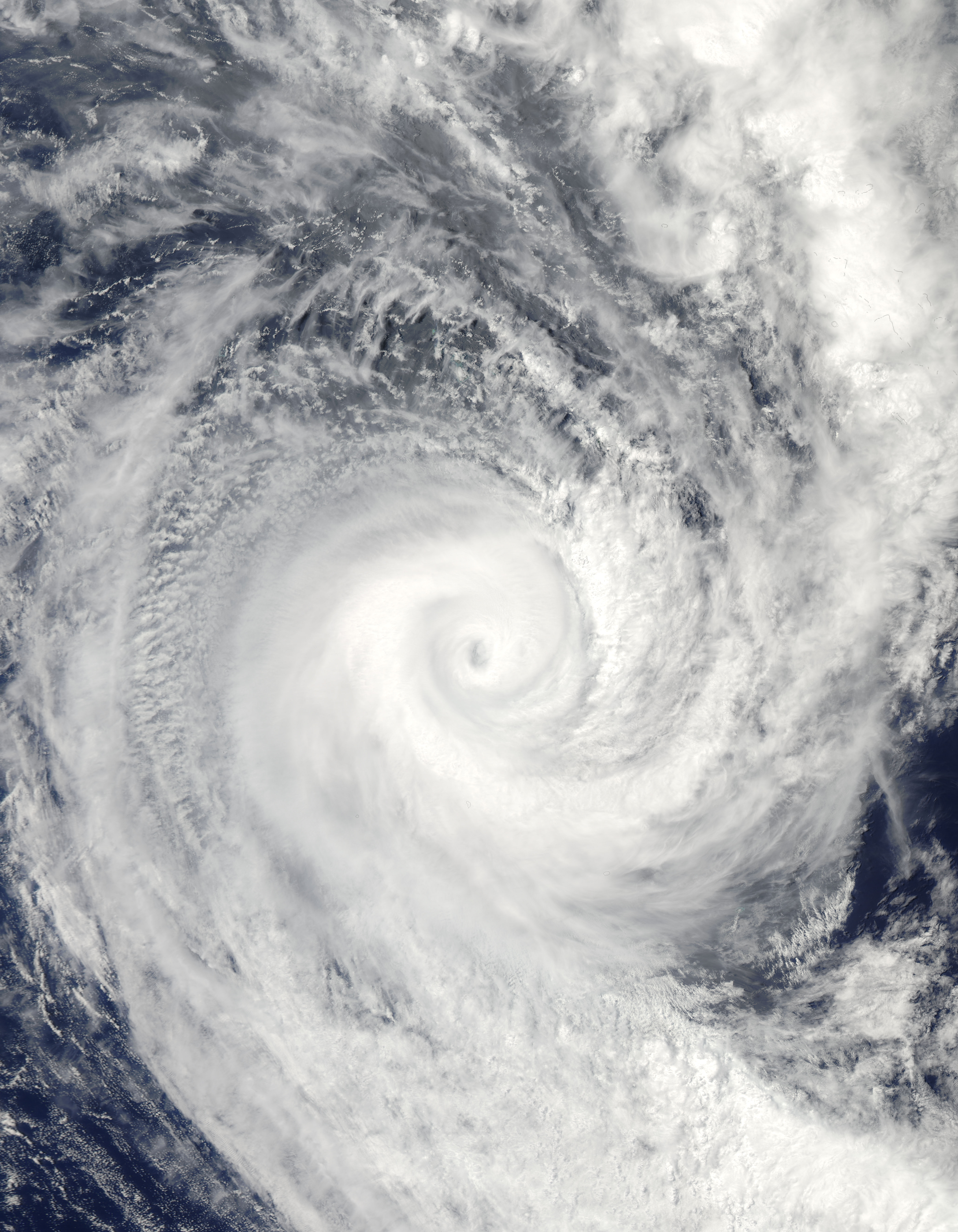 Tropical Cyclone Oli near peak intensity on Februrary 4, 2010.